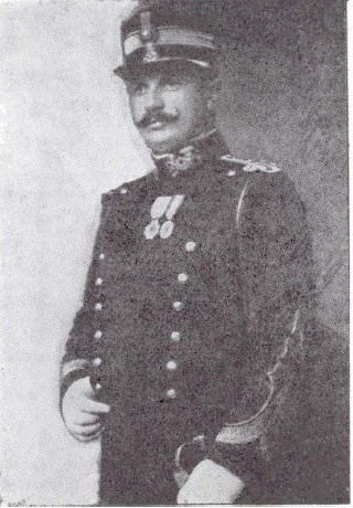 Romanian general Teodor Tăutu (1868-1937)